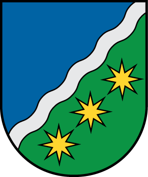 coat of arms of Ķekava Municipality, Latvia.